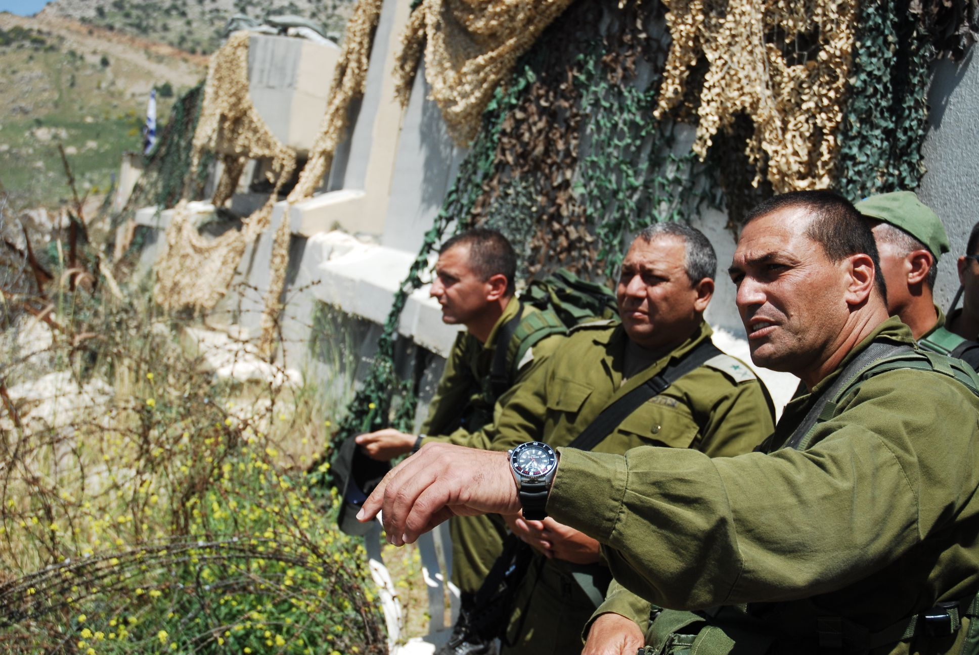 Maj. Gen. Gadi Eisenkot of North. Cmd. and Brig. Gen Eyal Zamir of Division 36 this morning at Hila Lookou